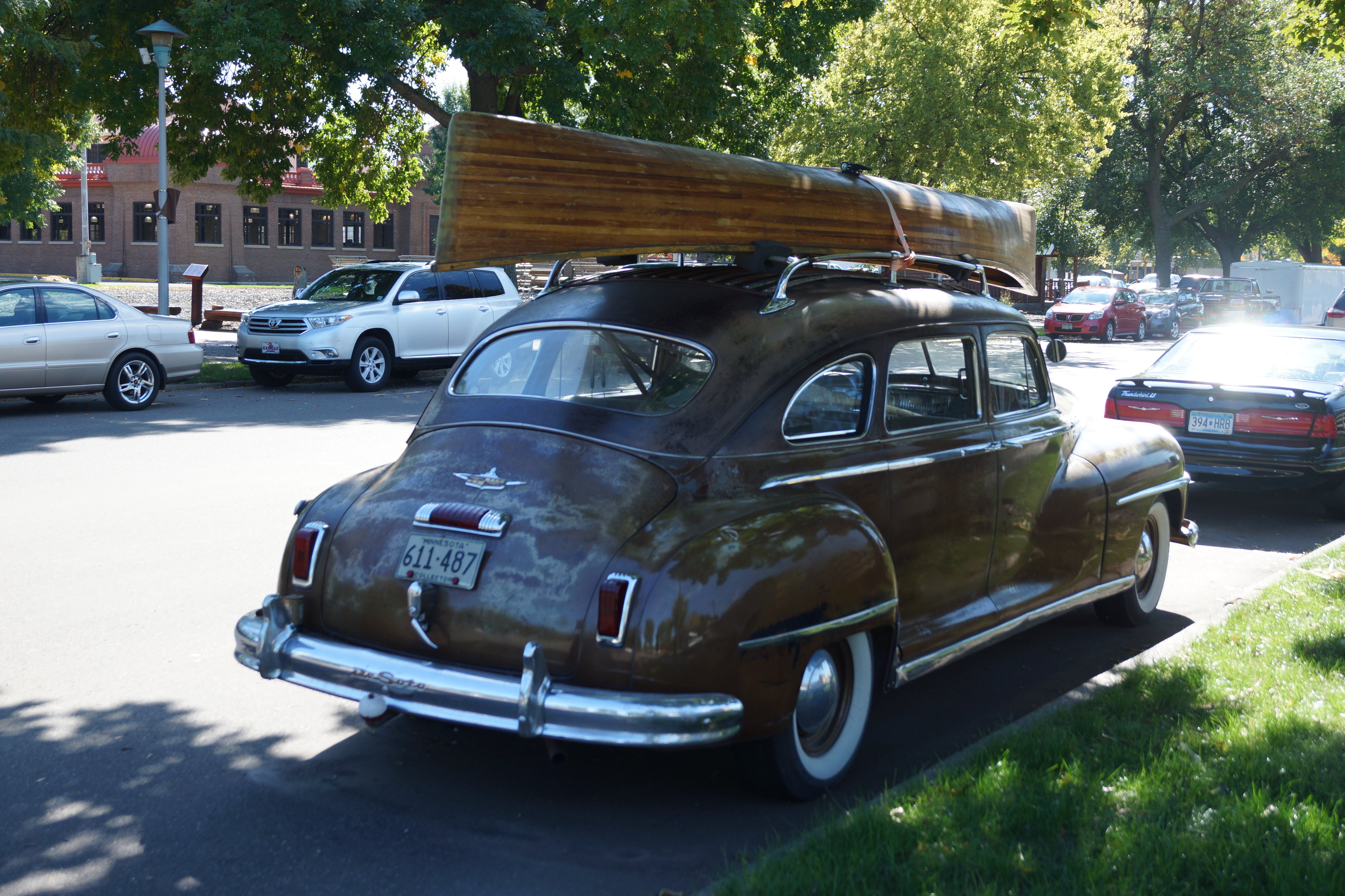 46th Annual Midwest Fall Swapmeet & Car Show Sponsored by the Capitol City Chapter of the AACA and the Twin Cities Model "A" Ford Club Minnesota State Fairgrounds St. Paul, Minnesota October 2016 Click here for more car pictures at my Flickr site.